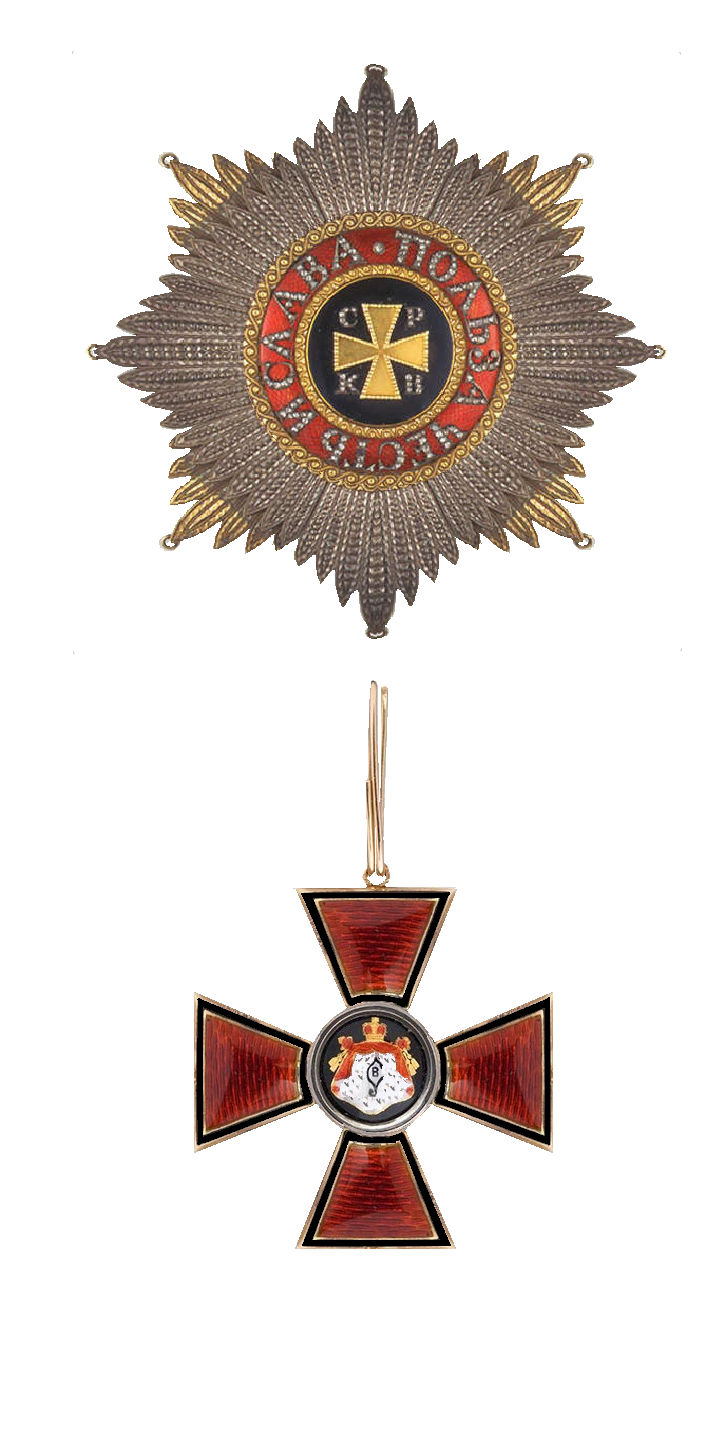 Order of St. Vladimir